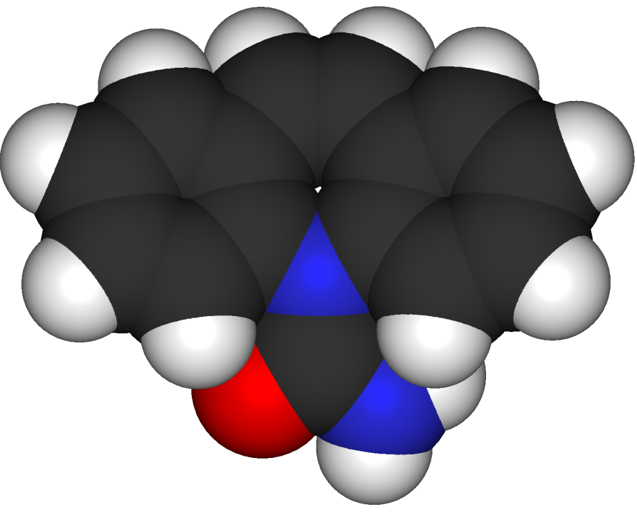 Space-filling model of carbamazepine. Created using ACD/ChemSketch 10.0, Accelrys DS Visualizer Pro 1.6 and GIMP.